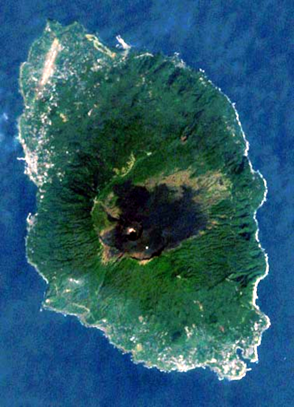 Landsat image of the Izu Oshima island, Izu islands, Japan